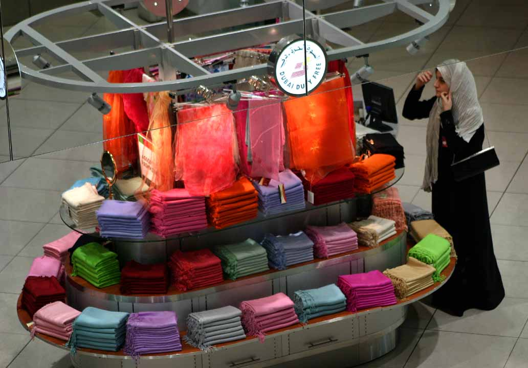 The woman is shopping on a mall in Dubai. This is taken in Dubai airport duty free.